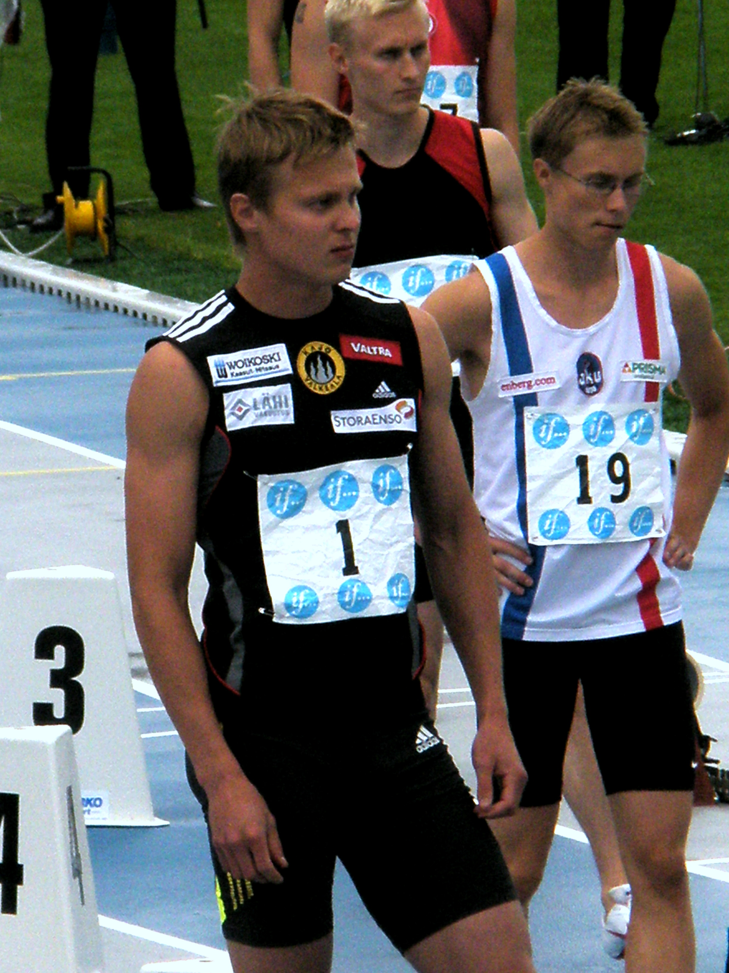 Finnish 200 meter sprinter Visa Hongisto at Kalevan Kisat in Espoo, Finland.